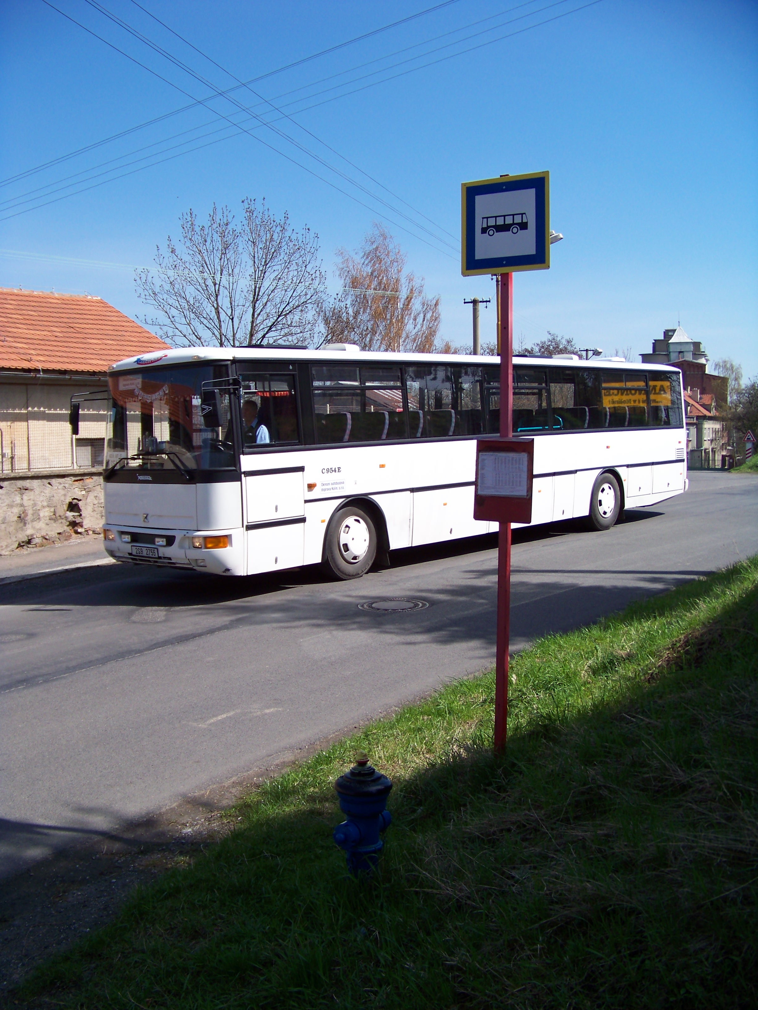 Kouřim, Kolín District, Central Bohemian Region, the Czech Republic. A bus and a bus stop near the train station. - Google Maps - Google Earth